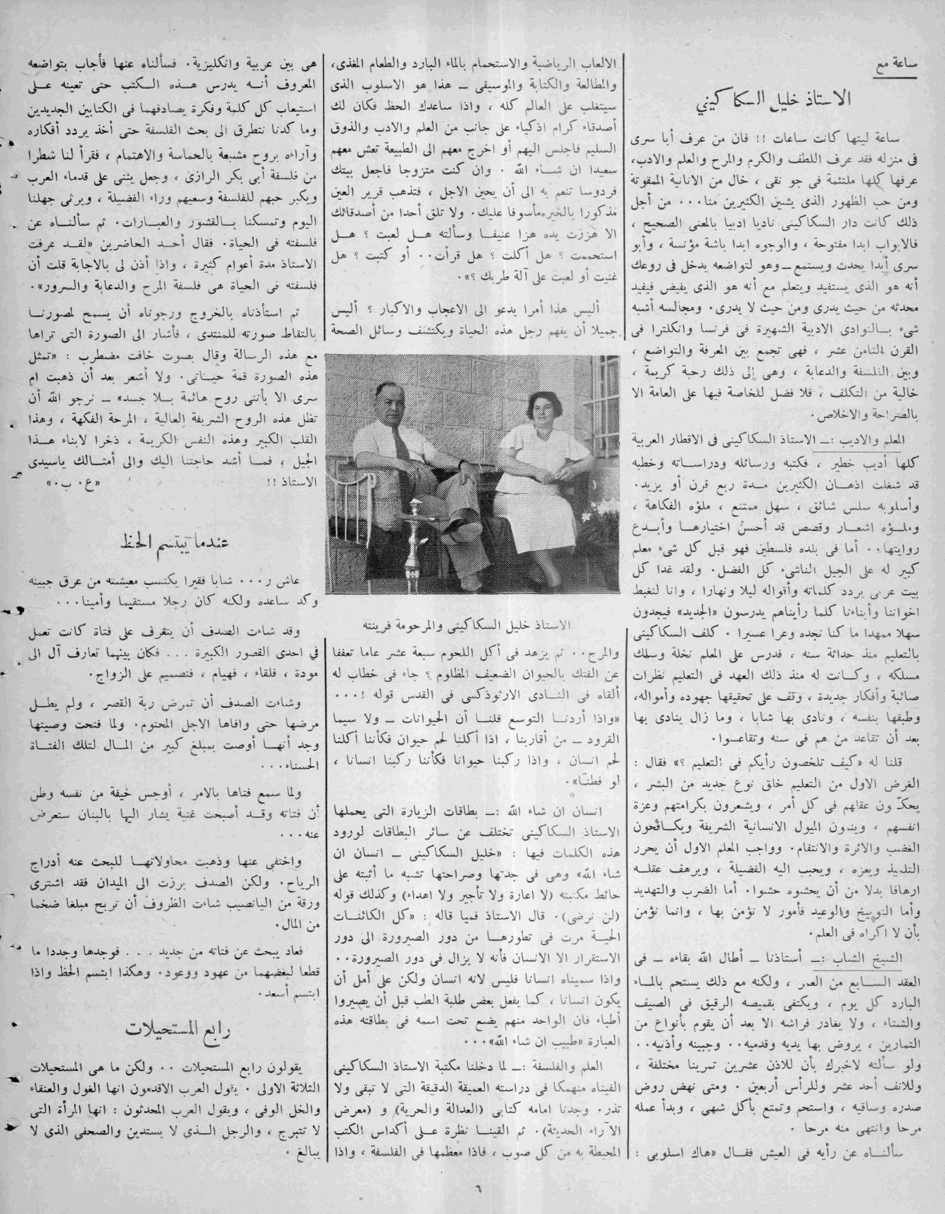 Interview with Khalil al-Sakakini from Al Montada newspaper